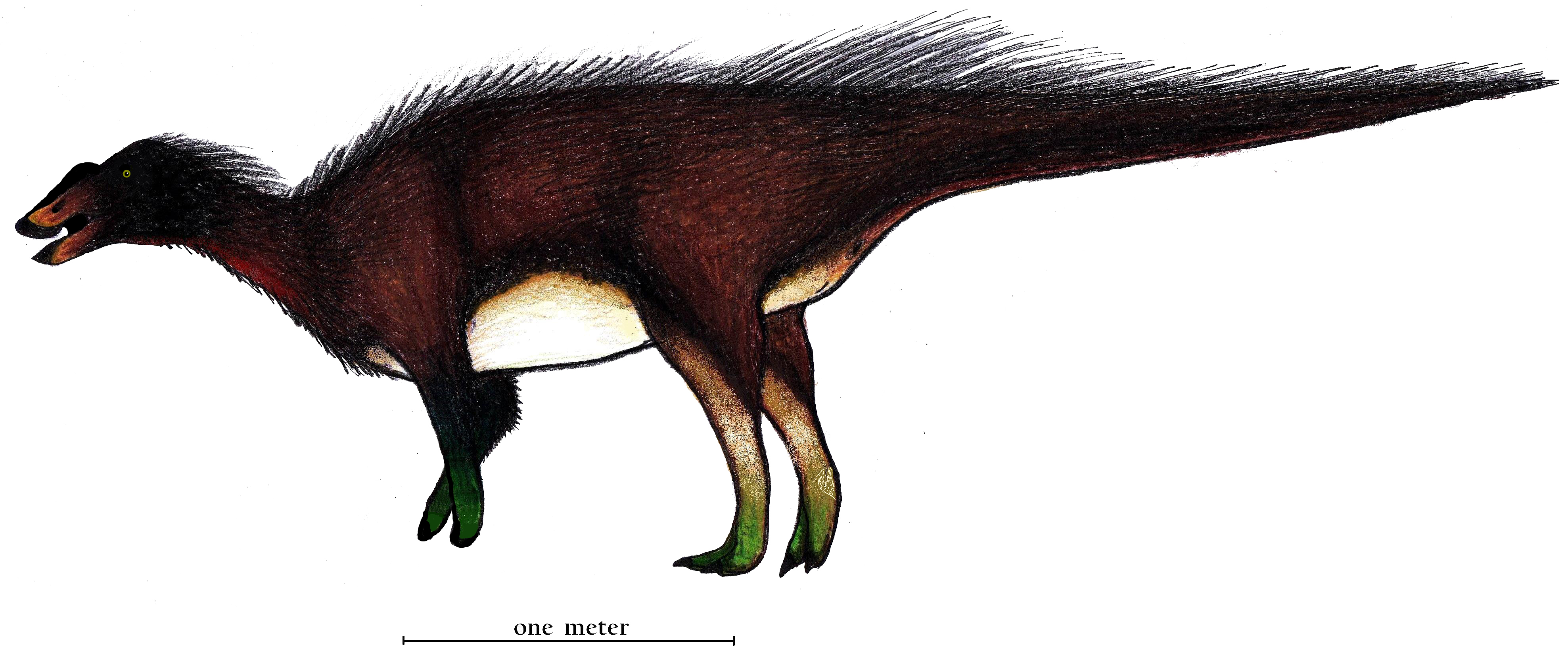 Canardia life restoration